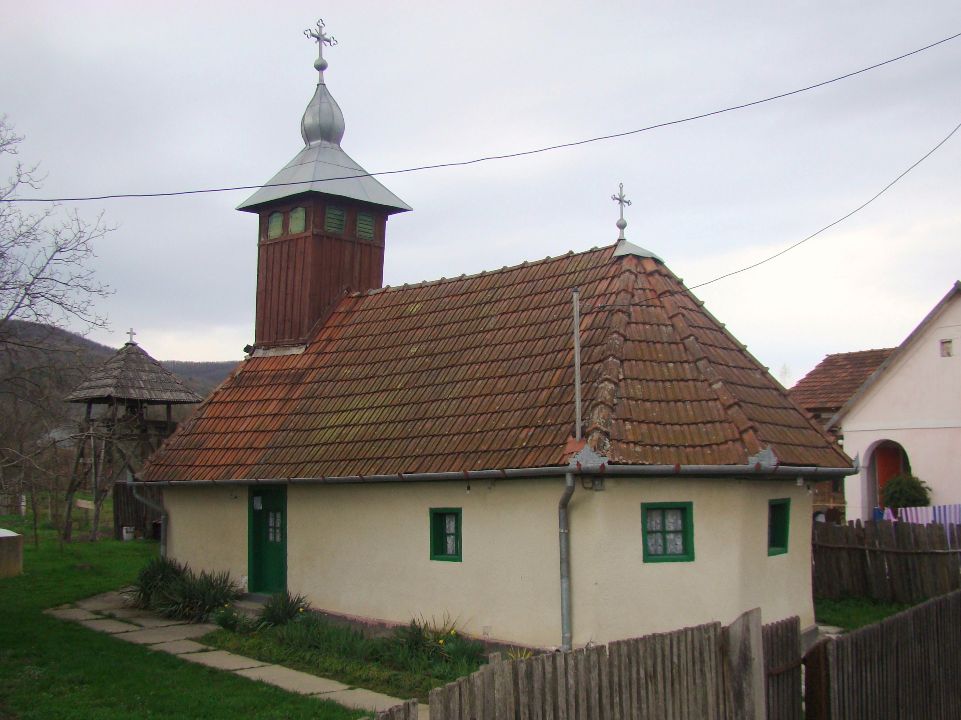 Wooden greek-catholic church in Julița, Arad county, Romania